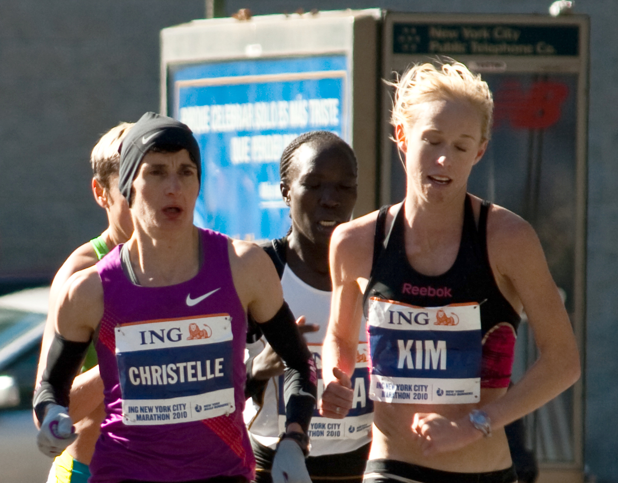 Women's leading pack at Mile 17 - Christelle Daunay (FRA), Kim Smith (NZL)